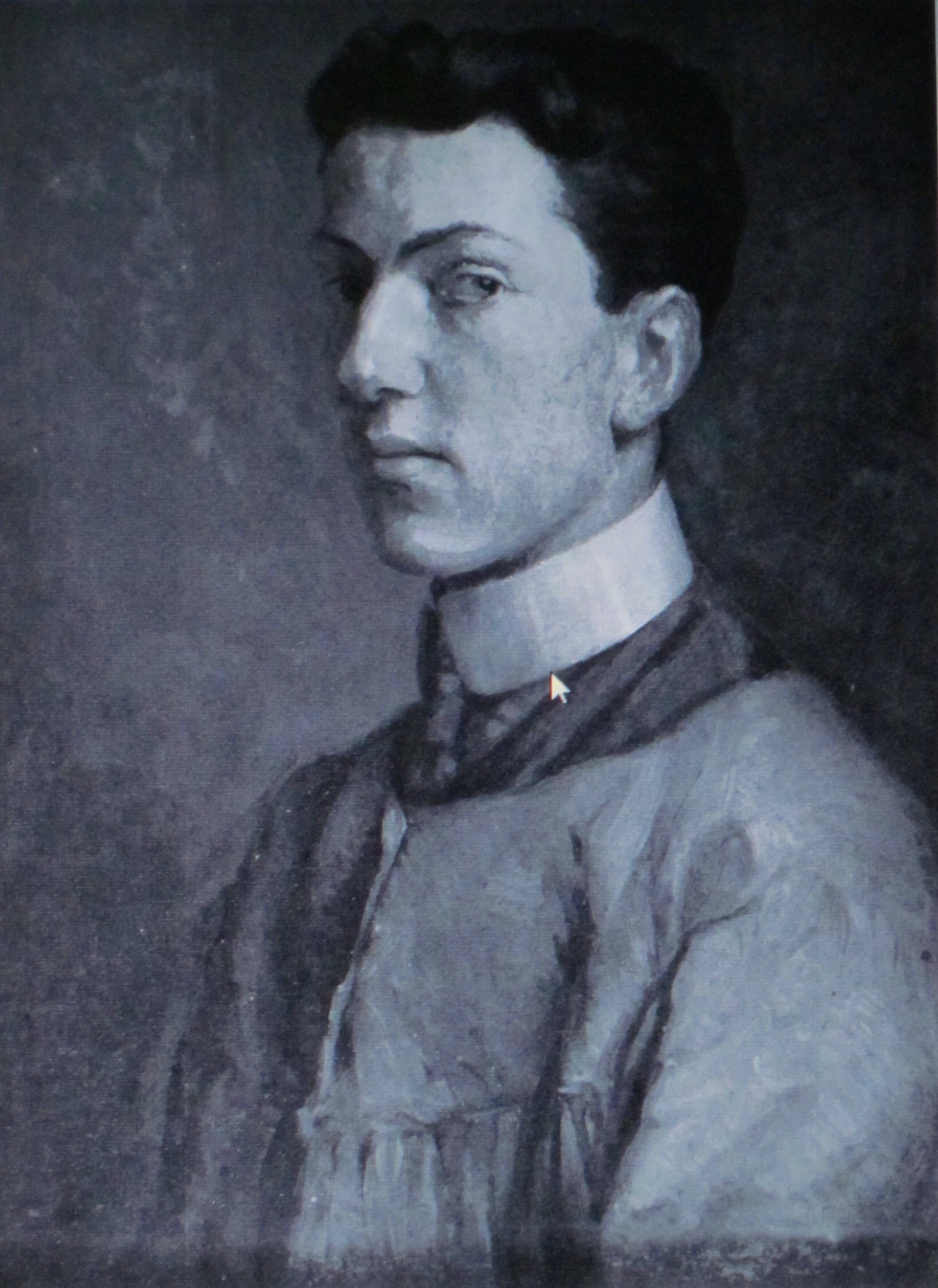 Maxwell Gordon Lightfoot Self-Portrait in Smock and High Collar c.1904–5